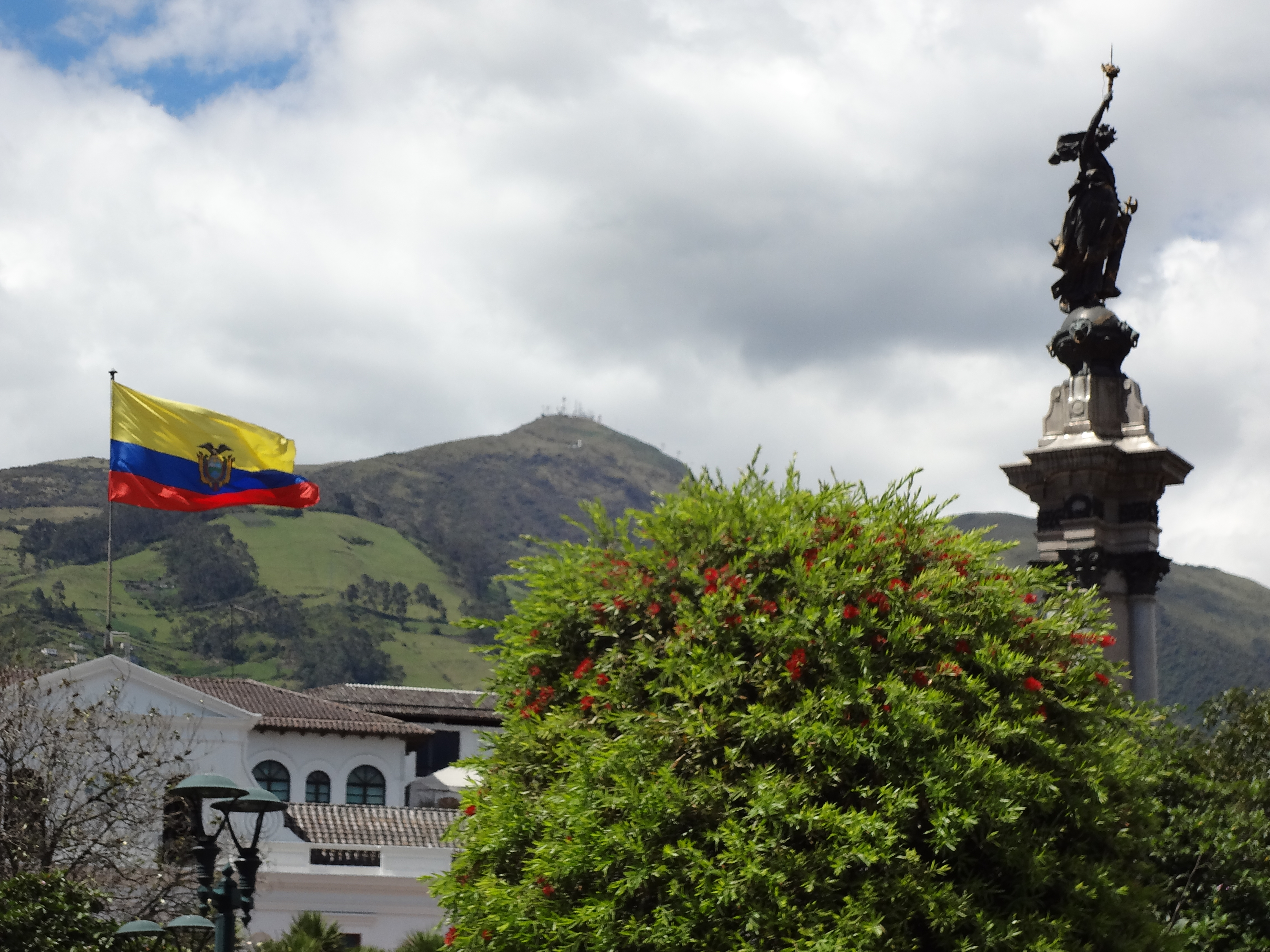 Independence Square, also known as Big Square (Spanish: Plaza de la Independencia, Plaza Grande). Historic public square of Quito (Ecuador), located in the heart of the old city. This is the central square of the city and one of the symbols of the executive power of the nation. Its main feature is the monument to the independence heroes of August 10, 1809, date remembered as the First Cry of Independence of the Royal Audience of Quito from spanish monarchy. The environment of the square is flanked by the Carondelet Palace, the Metropolitan Cathedral, the Archbishop's Palace, the Municipal Palace and the Plaza Grande Hotel.